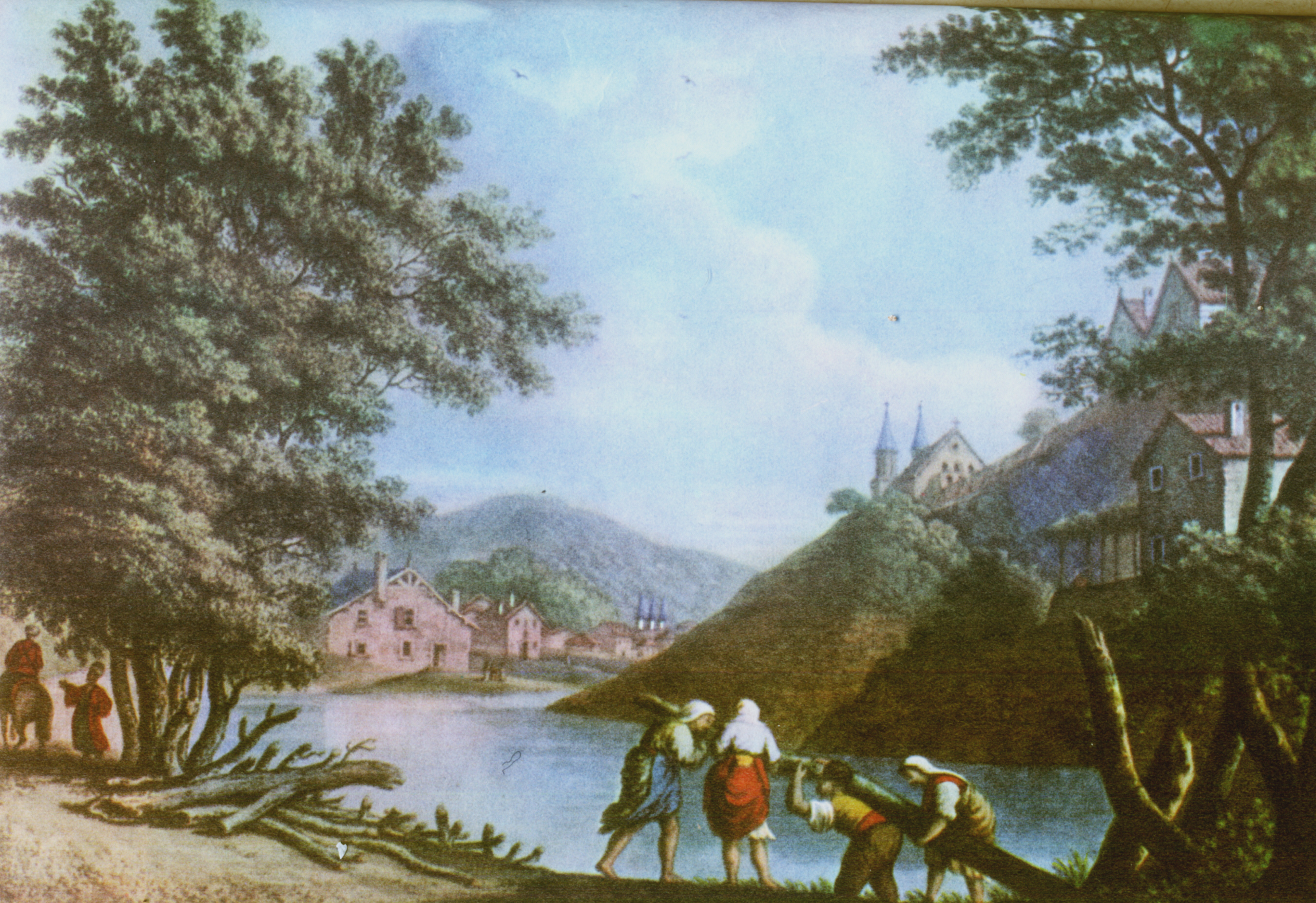 View over the Wallachian town of Piteşti